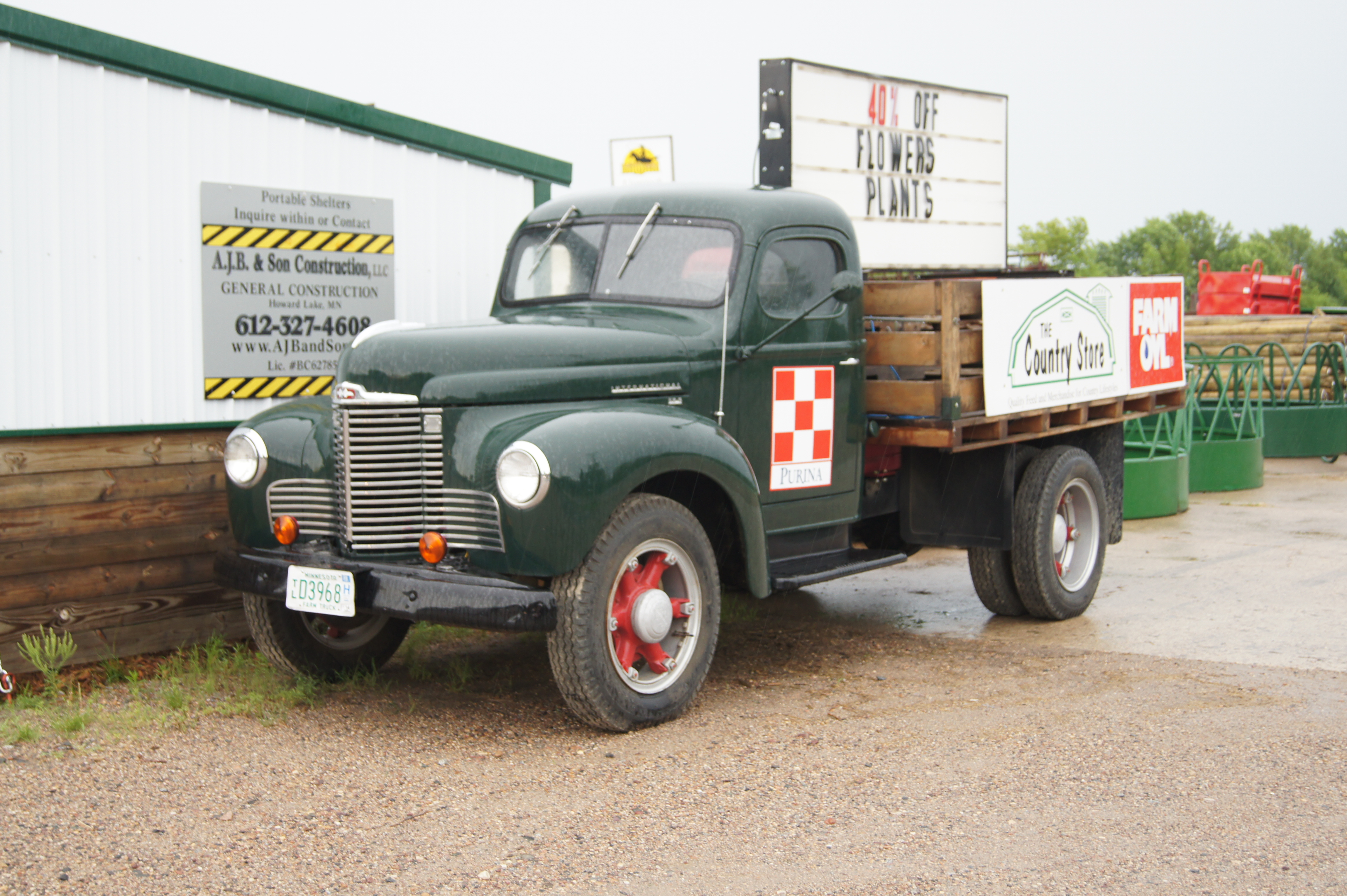 I bought my 2005 Dodge Magnum RT from Walser Chrysler Dodge in Hopkins. It came with free oil changes for life. I used to have relatives near the dealership that I would visit. They have all moved away, so now I just try to coordinate some car spotting for the trip. More Car Pictures